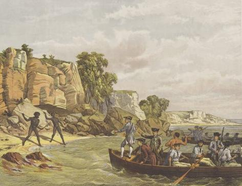 Cook's landing at Botany Bay in 1770. Lithograph by unknown artist, first published in the Town and Country Journal New South Wales, 21 December 1872.